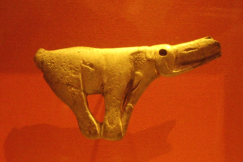 Mommoth Spear thrower Late Magdalenian, about 12,500 years old - found with Swimming Reindeer sculpture From the rockshelter of Montastruc, Tarn-et-Garonne, France